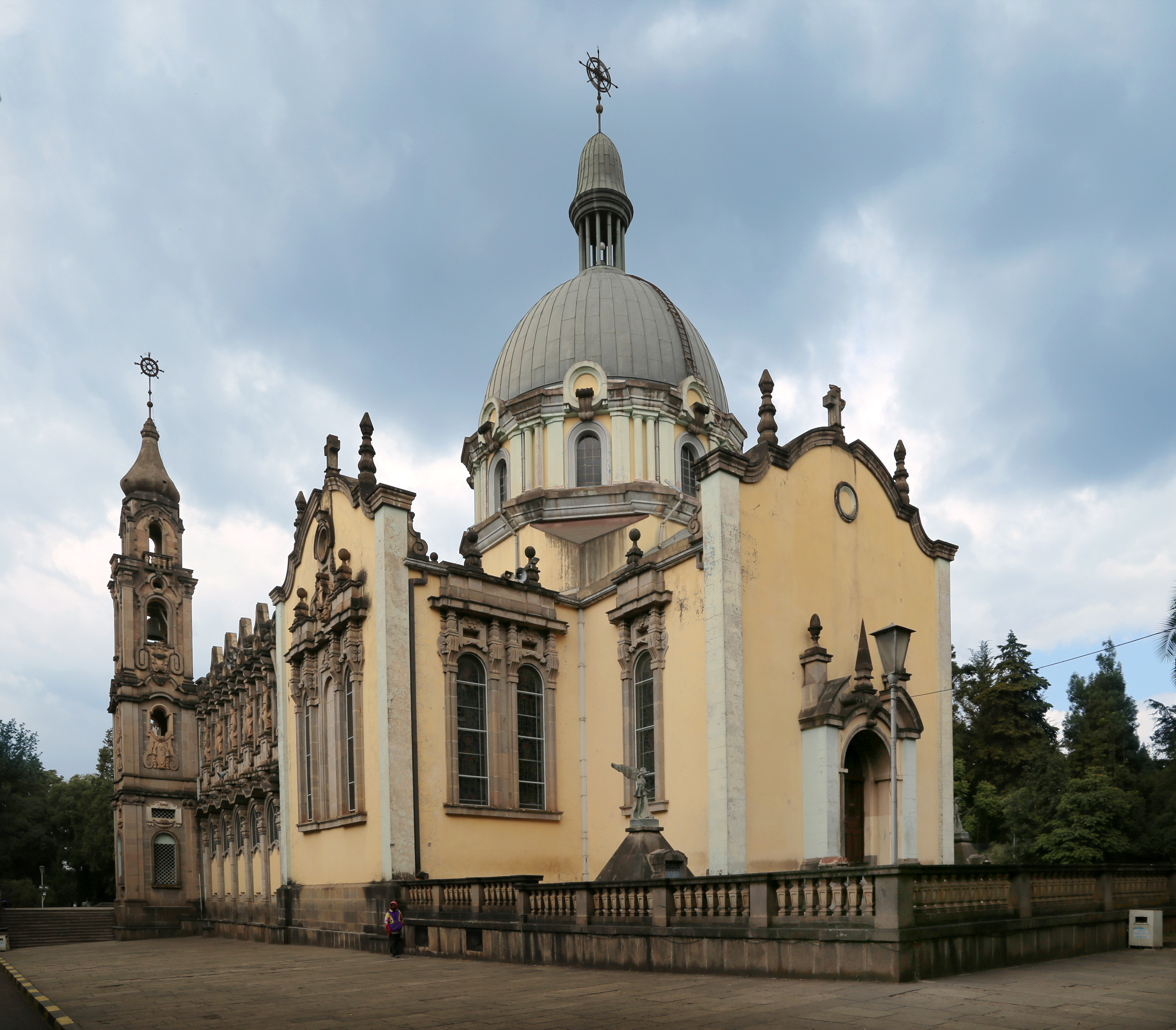 Holy Trinity Cathedral, Addis Ababa